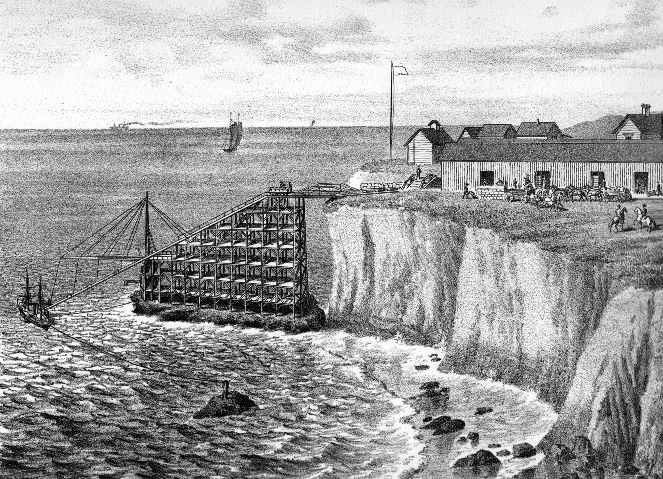 "Fabulous Gordon’s Chute at Tunitas Creek"